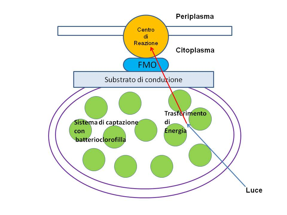 FMO complex diagram